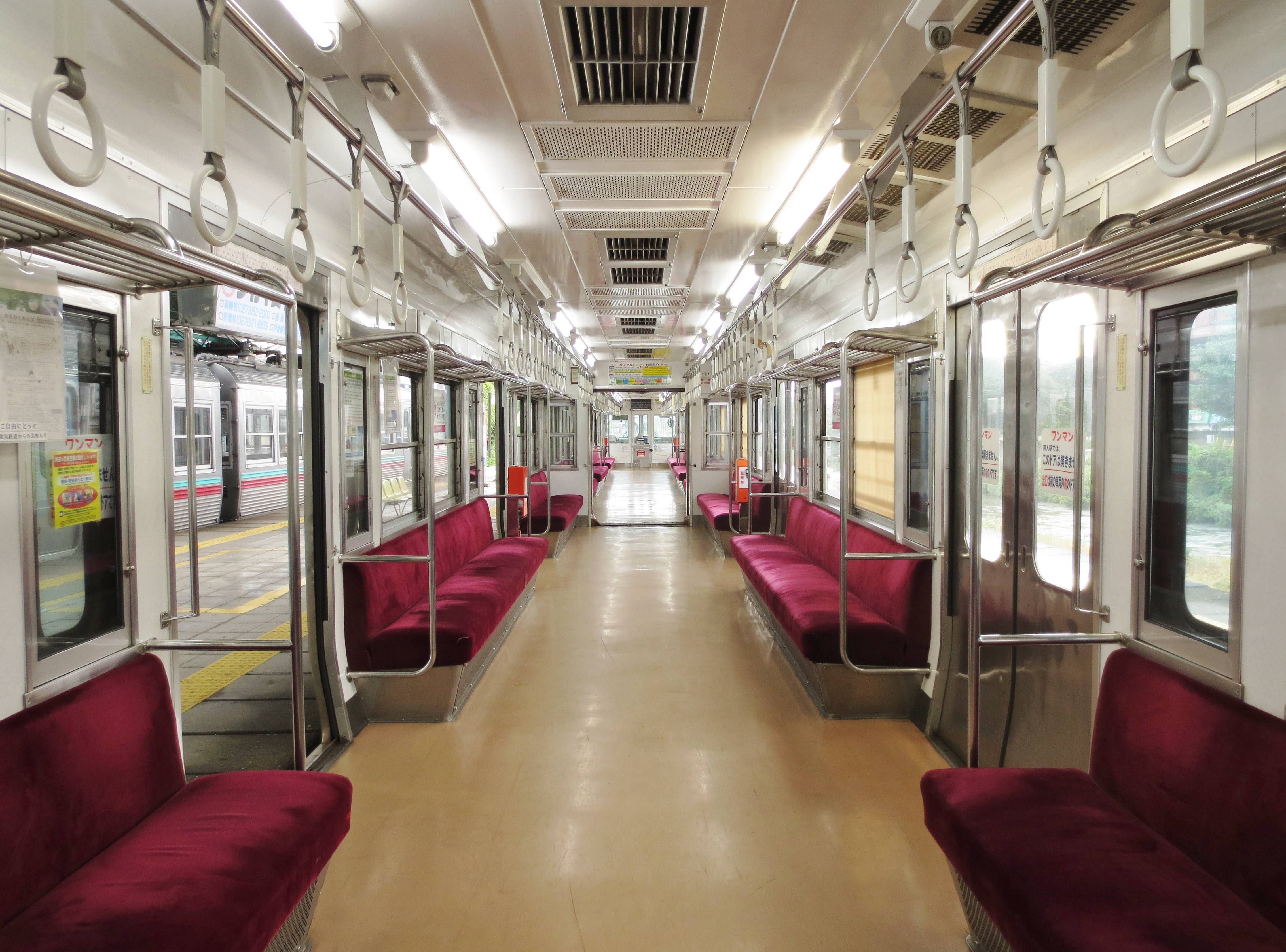 Jōmō Line Kuha 727 and Deha 717 in Chūō-Maebashi Station.